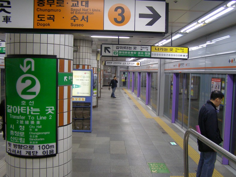 Euljiro 3-ga Station